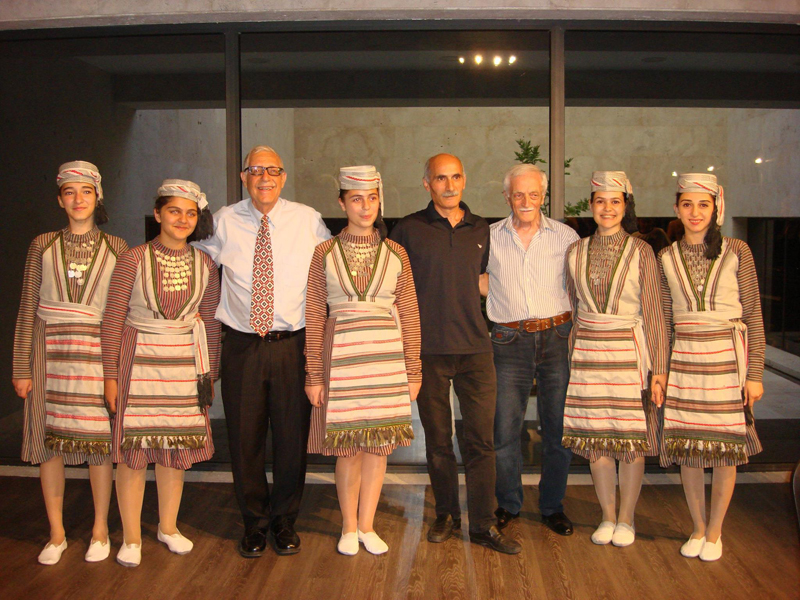 Folk dance ansamble, Philharmony of the NCA